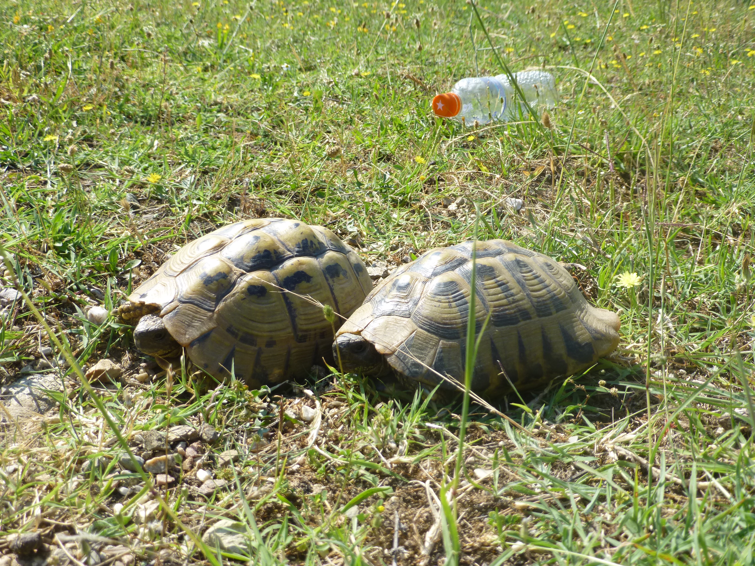 Tortoises in their natural habitat in Macedonia. The pictures taken in the valley of the Krushevska Reka (Krushevo River) where it is crossed by Hwy R1306, between Krivogashtani and Krushevo